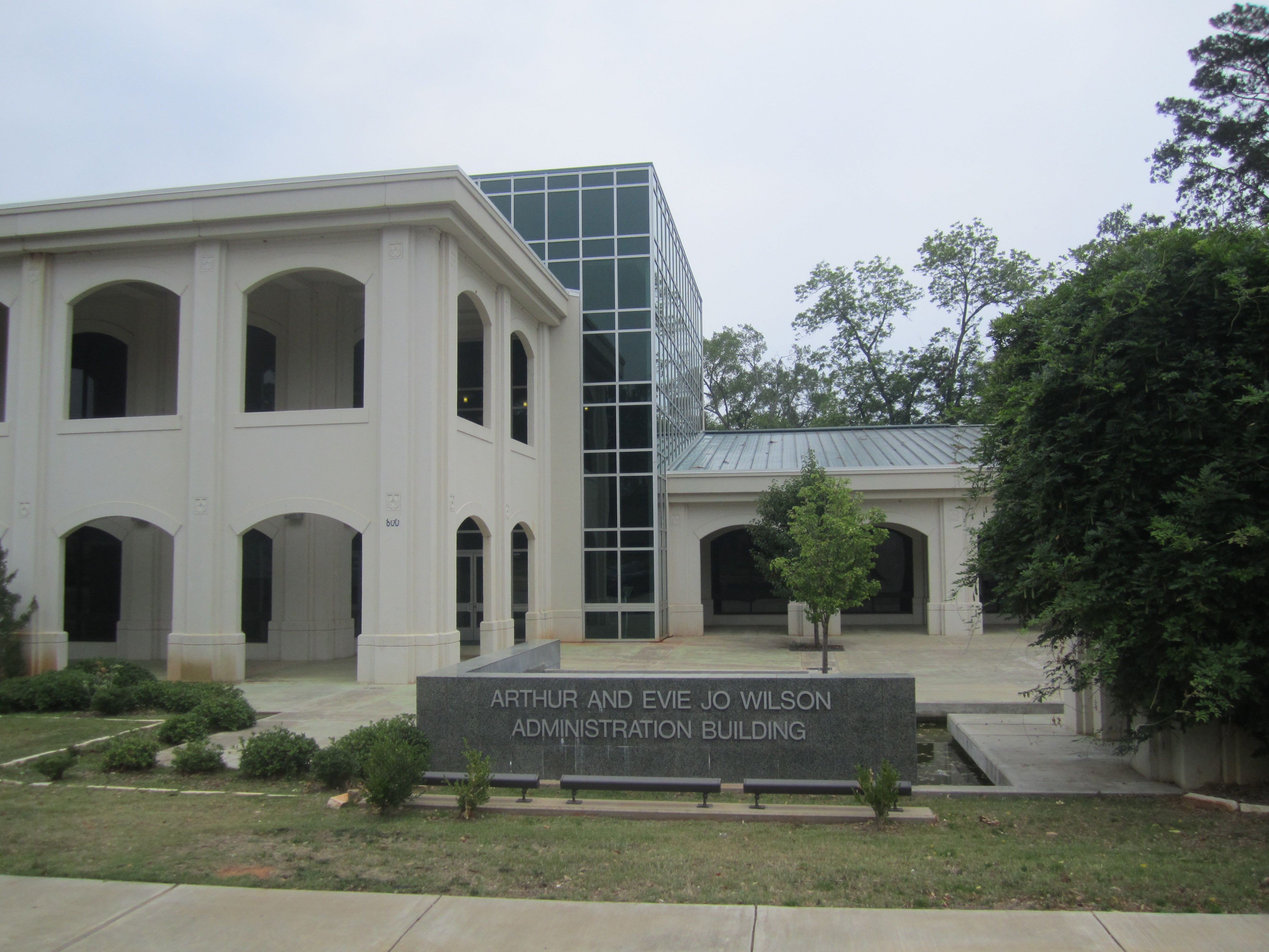 I took photo with Canon camera in Jacksonville, TX.